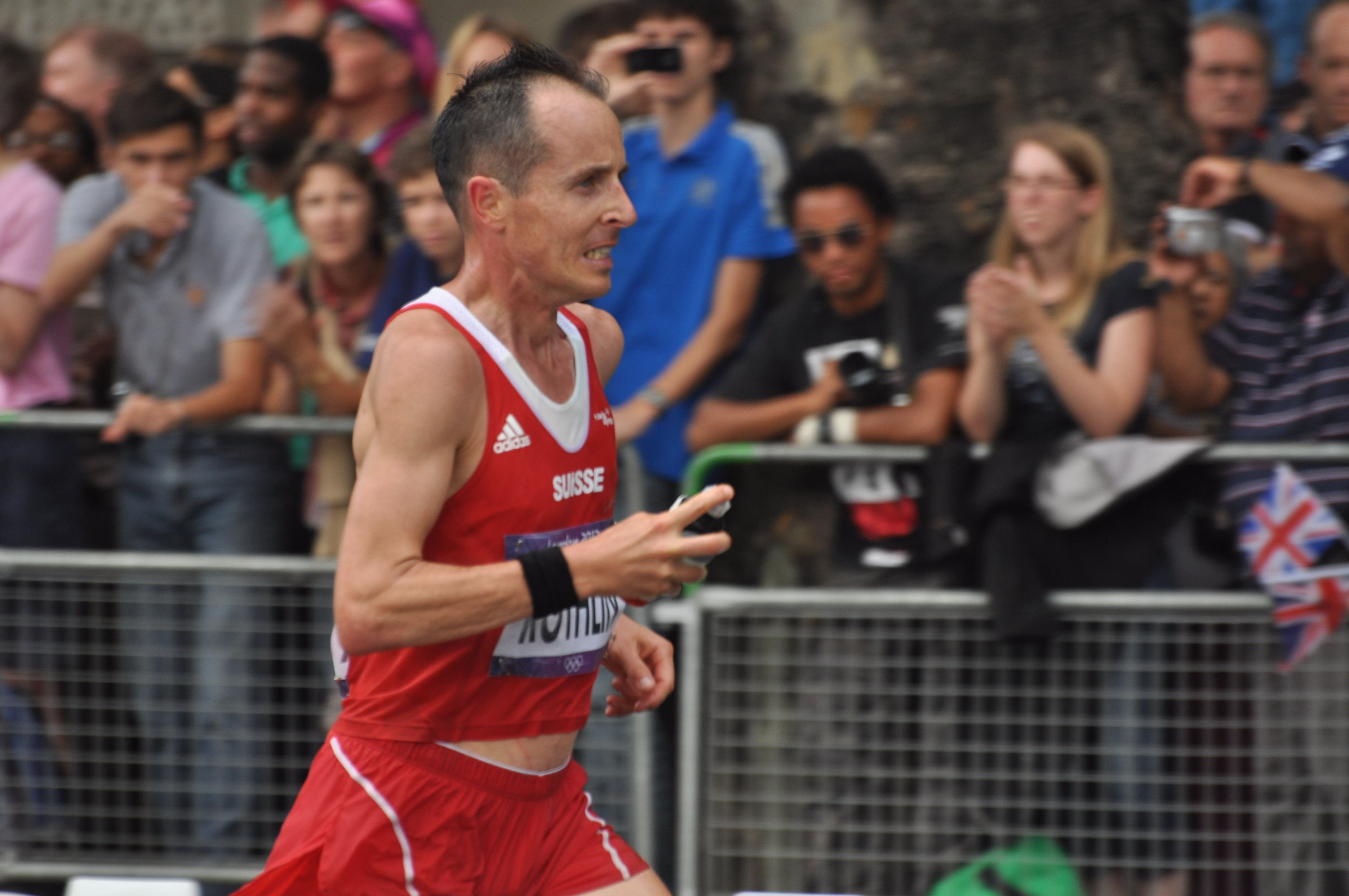 The men's marathon of the 2012 Summer Olympics in London, UK took place on an Olympic marathon street course on Sunday 12th August 2012 at 11:00. This was the final day of the 30th Olympic Games. The London 2012 marathon course is the standard Olympic distance of 26 miles 385 yards and consists of one short lap of approx 2.2 miles followed by three longer laps of 8 miles. The course began on The Mall and travelled past several of the most famous London landmarks. The start/finish line was near the Victoria Memorial. These photographs were taken at the Victoria Embankment. This featured several times on the looped course. The approximate location from the photographs is shown in the Google StreetView Link below. Stephen Kiprotich won in 2 hours, 8 minutes, 1 second as he pulled away from the Kenyan duo of Abel Kirui and Wilson Kiprotich Kipsang. These photographs are unofficial photographs. They are not endorsed by London 2012. There are not commercially available. They are available for use under a Creative Commons License. Please link back to the photograph on my Flickr account if you use the image.